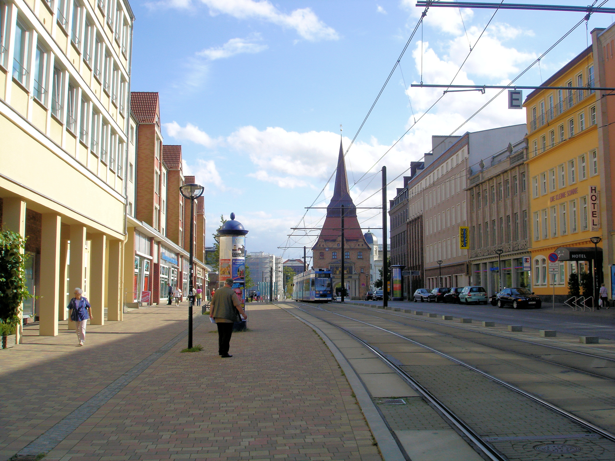 Street in the historic city of Rostock